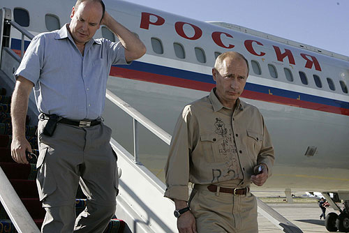 TUVA. Arrival in Kyzyl. With Prince Albert II of Monaco.